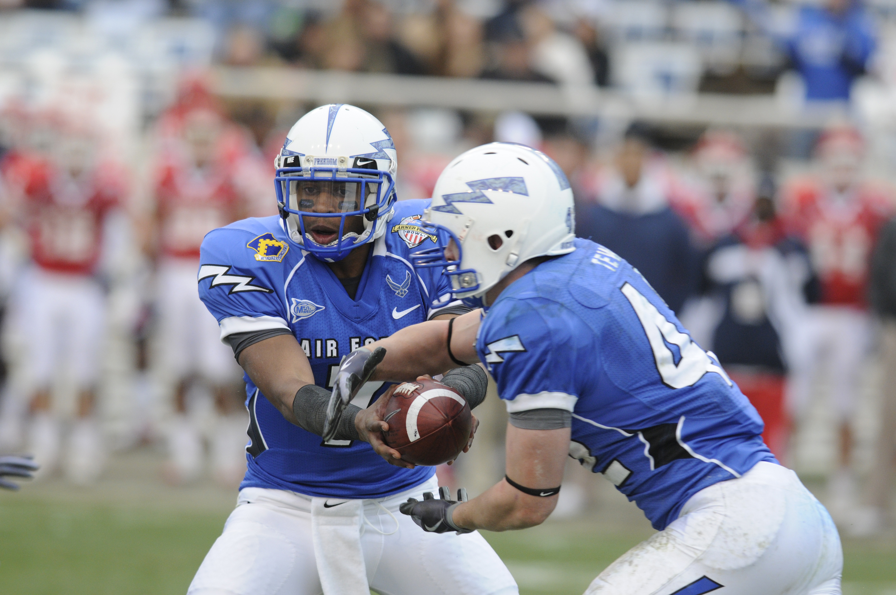 Falcons quarterback Tim Jefferson hands off to fullback Jared Tew during the Armed Forces Bowl Dec. 31, 2009, at Fort Worth, Texas. The Air Force Academy triumphed over the University of Houston Cougars, 41-20. VIRIN: 091231-F-0000E-107